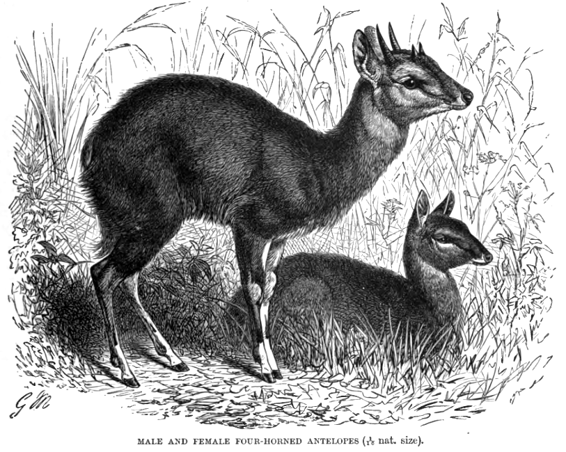 Chausingha, Four horned antelope Tetracerus quadricornis